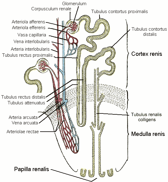 A nephron of the kidney. from Gray's Anatomy 1918. The illustration includes an important anatomical error in that it fails to depict the distal tubulus (tubulus rectus distalis) passing by vascular pole of the glomerulus before becoming the distal convoluted tubule (tubulus contortus distalis). The distal tubulus together with the afferent arteriole (arteriola afferens) and the extra glomerular mesangial cells together make up the juxtaglomerular apparatus. This occurs in all nephrons but was not known in 1918.